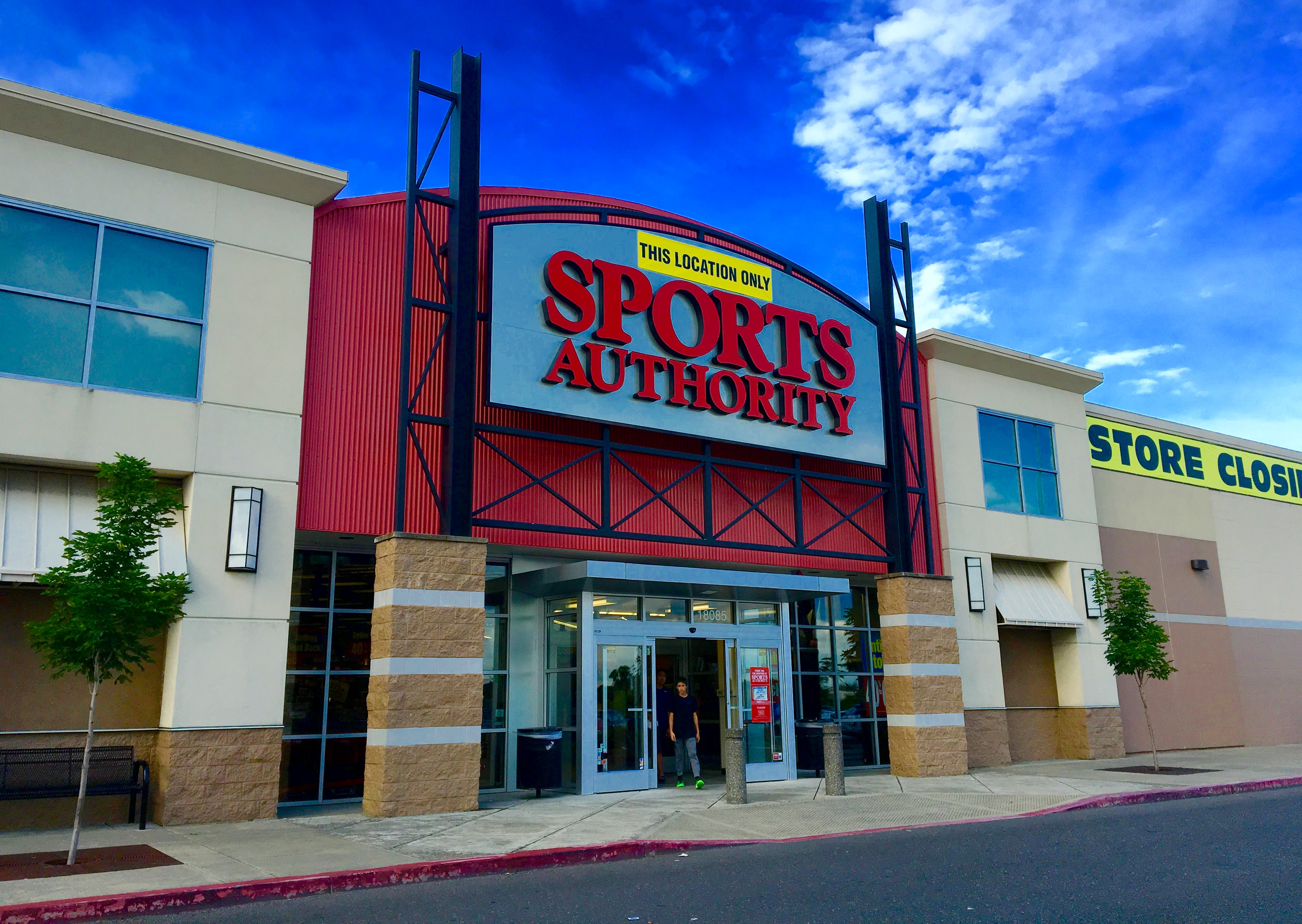 Sports Authority in Tanasbourne, Hillsboro, Oregon, with sign announcing closure of the store amid bankruptcy of the company.